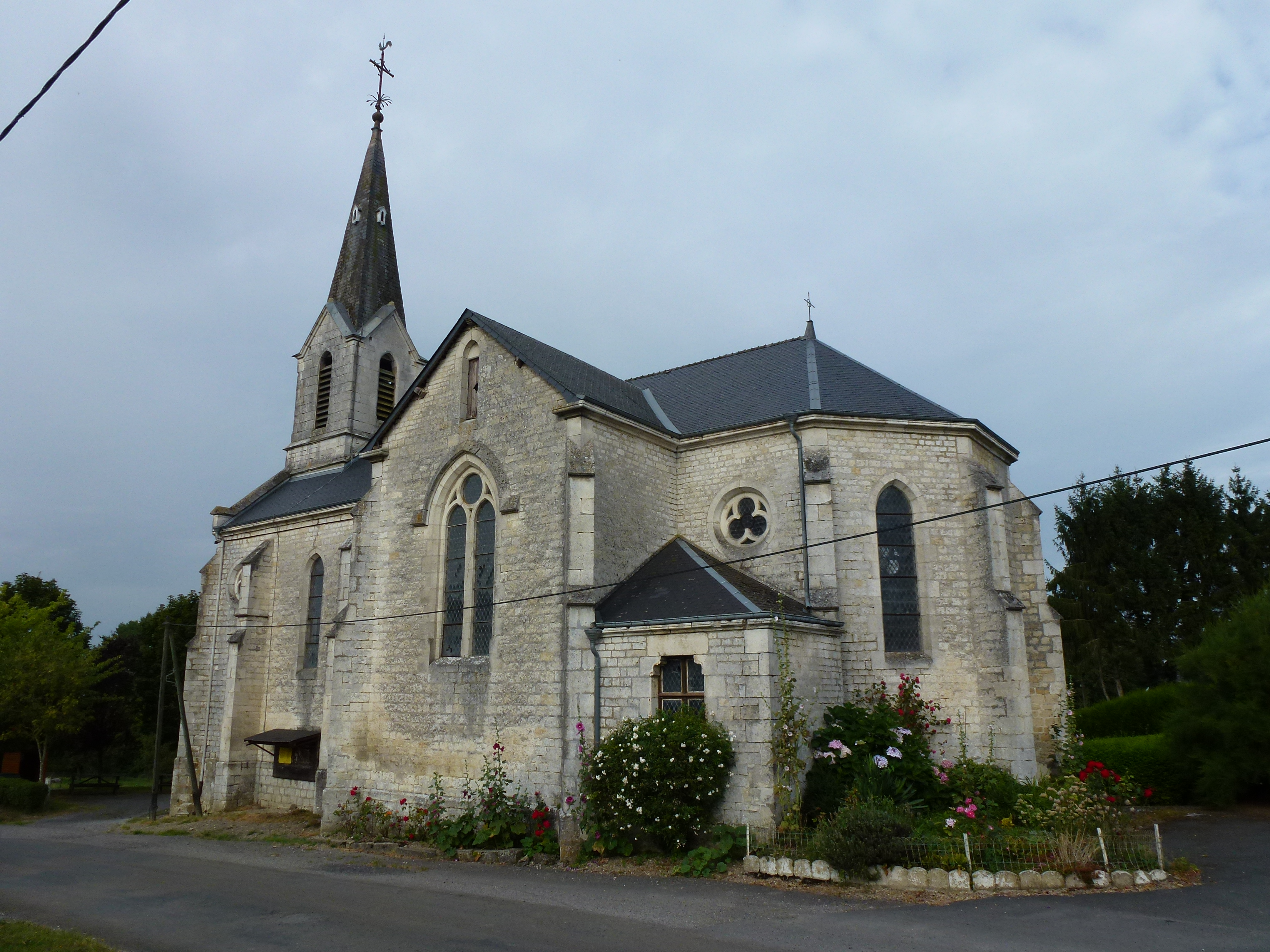 Maranwez (Ardennes) église, chevet